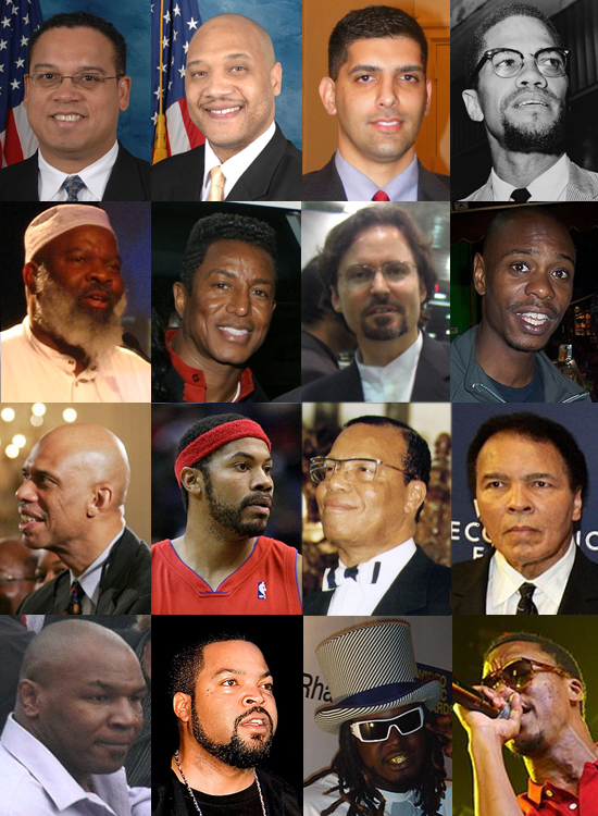 Images from top, left to right: Keith Ellison (File:Rep.K.Ellison.jpg) André Carson (File:Rep. André Carson.jpg) Saqib Ali (File:1ali07.jpg) Malcolm X (File:Malcolm X NYWTS 4.jpg) Siraj Wahhaj (File:Siraj Wahhaj.png) Jermaine Jackson (File:JermaineJackson2007(cropped).jpg) Hamza Yusuf (File:Hamza Yusuf.png) Dave Chappelle (File:Dave Chappelle (cropped).jpg) Kareem Abdul-Jabbar (File:Kareem Abdul Jabbar crop.jpg) Rasheed Wallace (File:Rasheed Wallace 2.jpg) Louis Farrakhan (File:Louis Farrakhan 2018.jpg) Muhammad Ali (File:Muhammad Ali, Davos.jpg) Mike Tyson (File:Mike Tyson festival de Cannes.jpg) Ice Cube (File:IceCube Toronto2006.jpg) T-Pain (File:TPainVMASept08.jpg) Lupe Fiasco (File:Lupe Fiasco - Melbourne1.jpg)